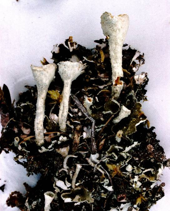 Cladonia pleurota (Flörke) Schaerer, 1850 Photograph of a herbarium specimen. This colony of Cladonia pleurota was growing on soil at Milbridge Cemetery in Milbridge, Washington County, Maine, USA (Lat. 44o31.353' N, Long. 67o53.787' W) Collected by E.C. Uebel (No. U-124, 12 Jun 2001), identified by Dr. David H.S. Richardson.